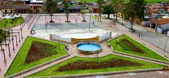 Parque principal Gachancipá